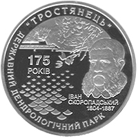 Coin of Ukraine